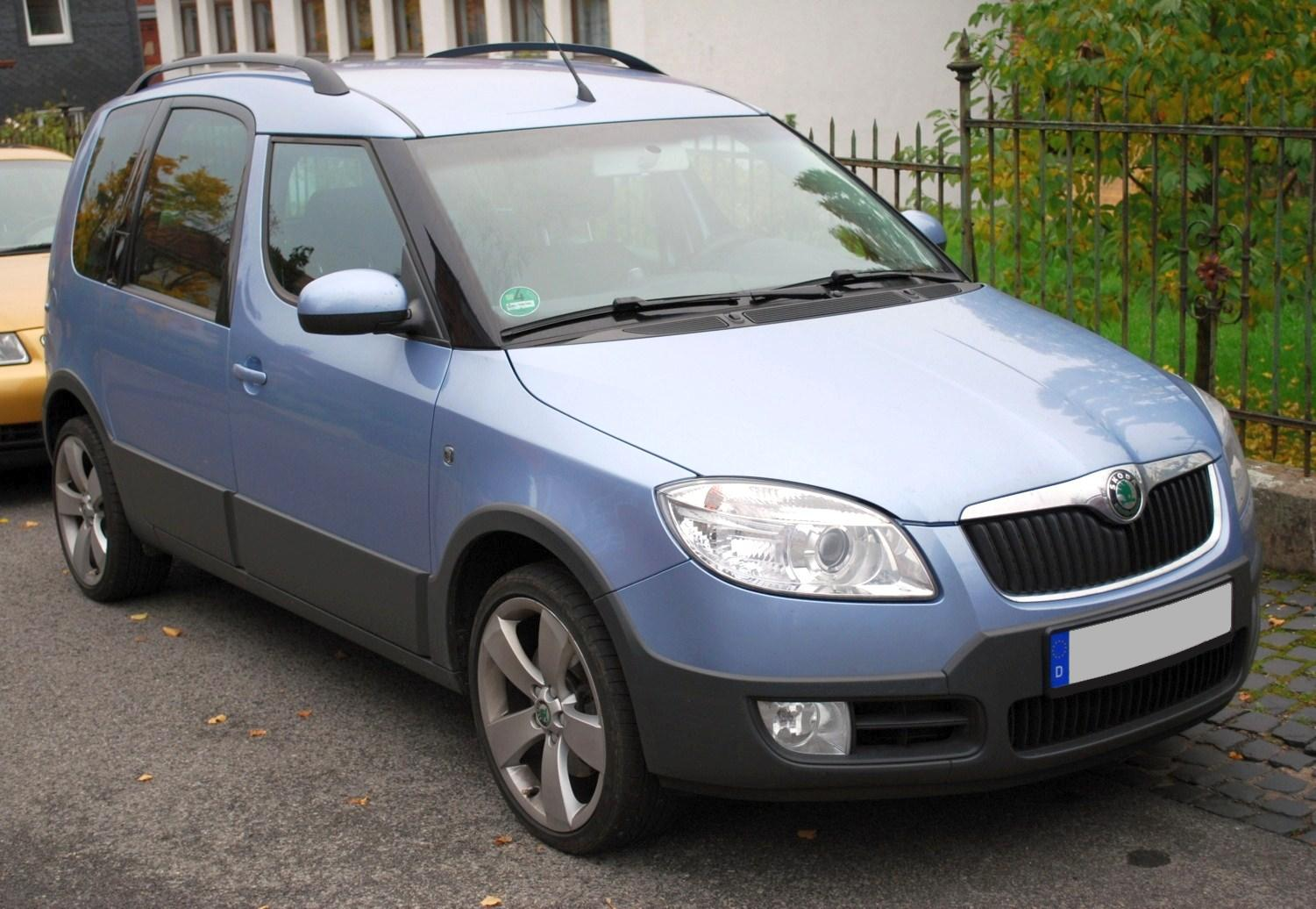 Škoda Roomster Scout